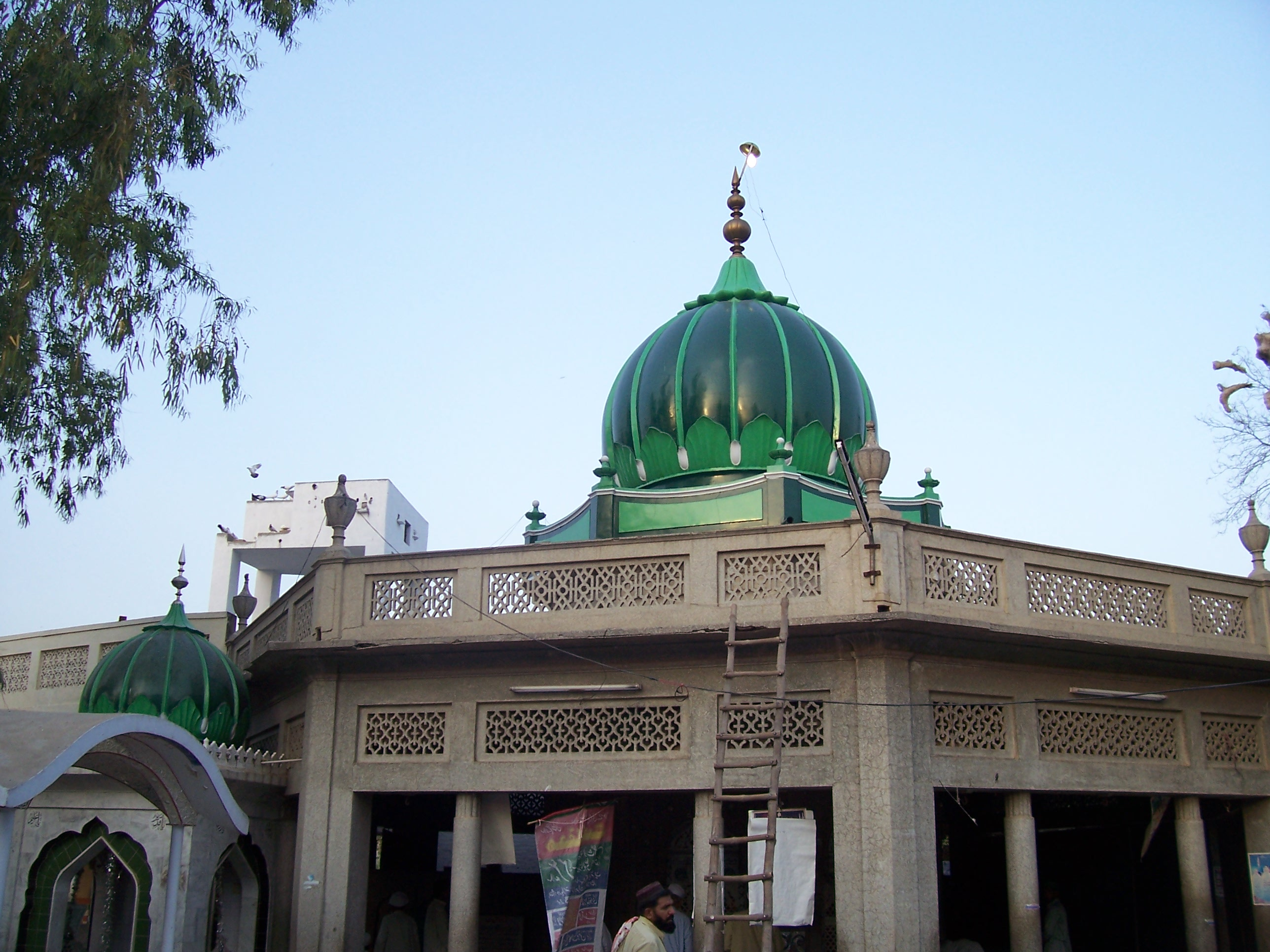 Sahraqpur Shrine of Mian Sher Muhammad